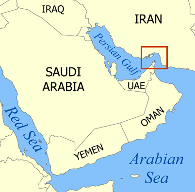 Map indicating the location of the Strait of Hormuz in relation to the Arabian Peninsula.